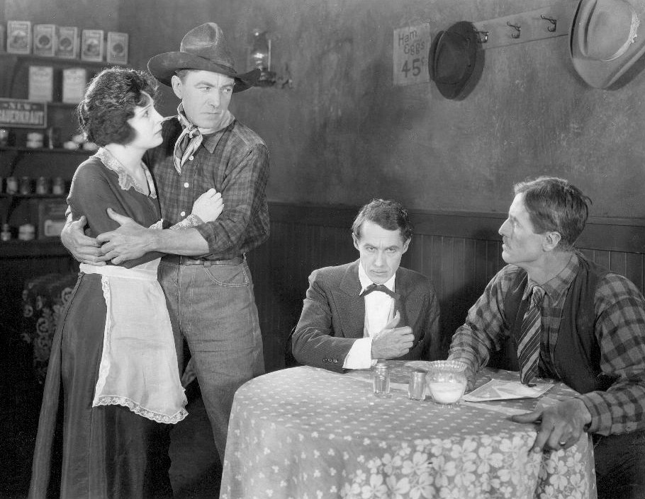 Scene from the American western film The Kickback (1922) aka The Kick Back.